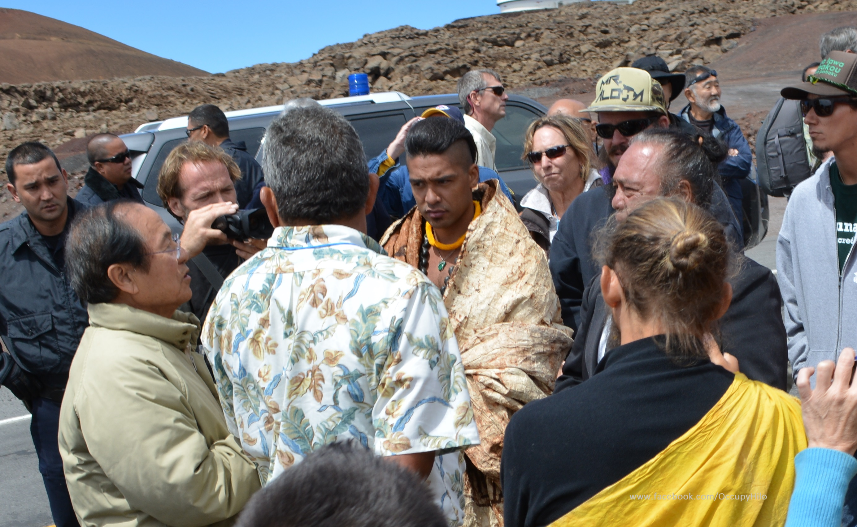 Thirty Meter Telescope protest, October 7, 2014 Local police stand in the background as Mayor Billy Kenoi talks with Hawaiian cultural practitioner, Joshua Lanakila Mangauil, Kahookahi Kanuha and other "protectors".